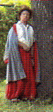 Gobelin partitive